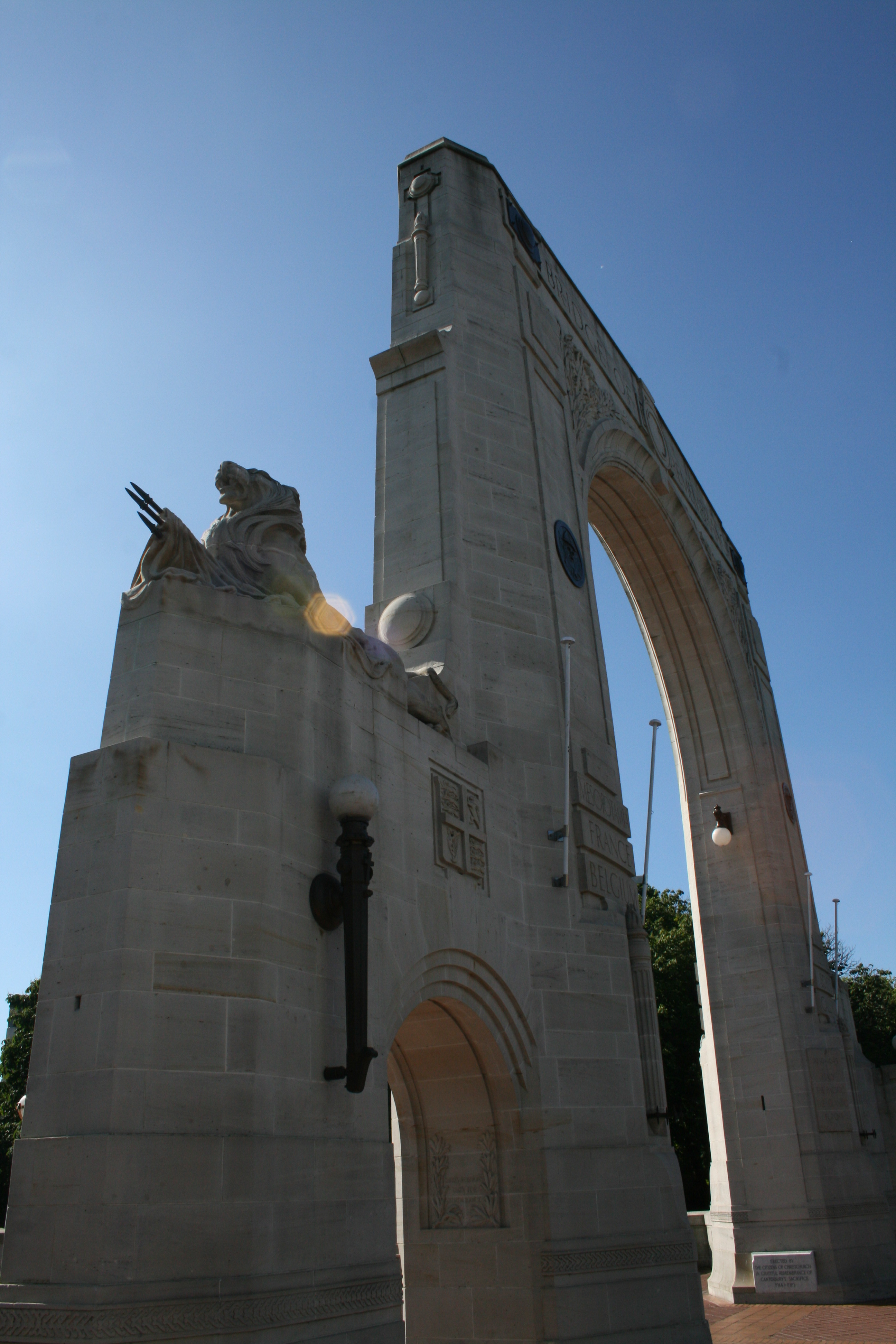 Christchurch, New Zealand